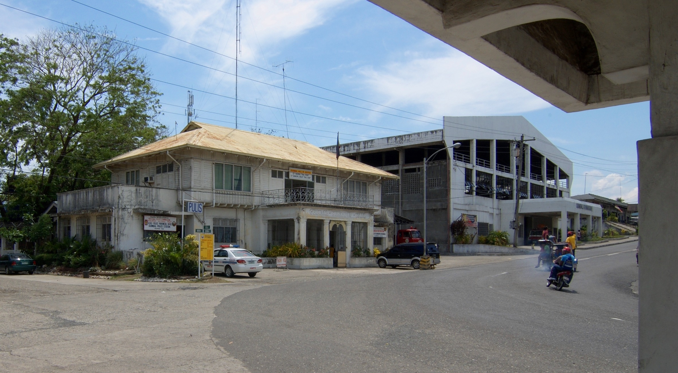 Guimbal Municipal Hall, Guimbal, Iloilo